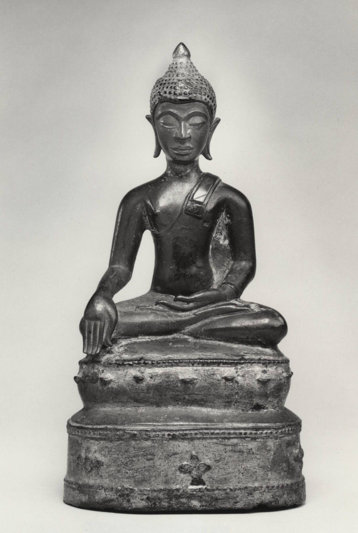 This small image follows the Sihing iconography- gem radiance, short mantle, "vajrasana," right hand on the knee. It has few if any of the stylistic qualities of the 15th-16th century manifestations of the Sihing, however. The treatment of the facial features may appear to have a folksy quality, but nevertheless the sculptor is in control of the modeling and quite capable of deciding when a straighforwardly graceful curve is in order and when something more quirky is preferable.